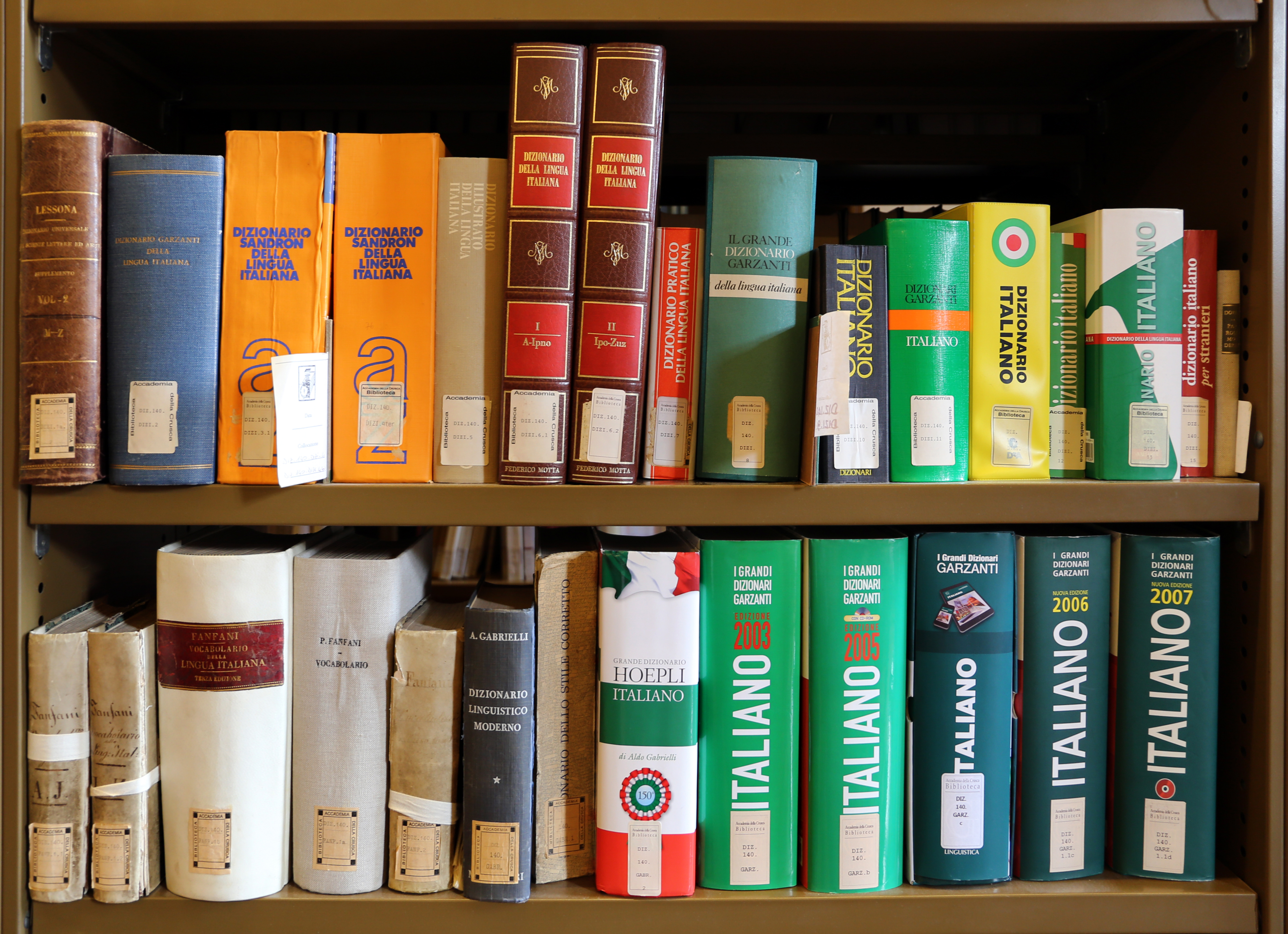 Accademia della Crusca Library